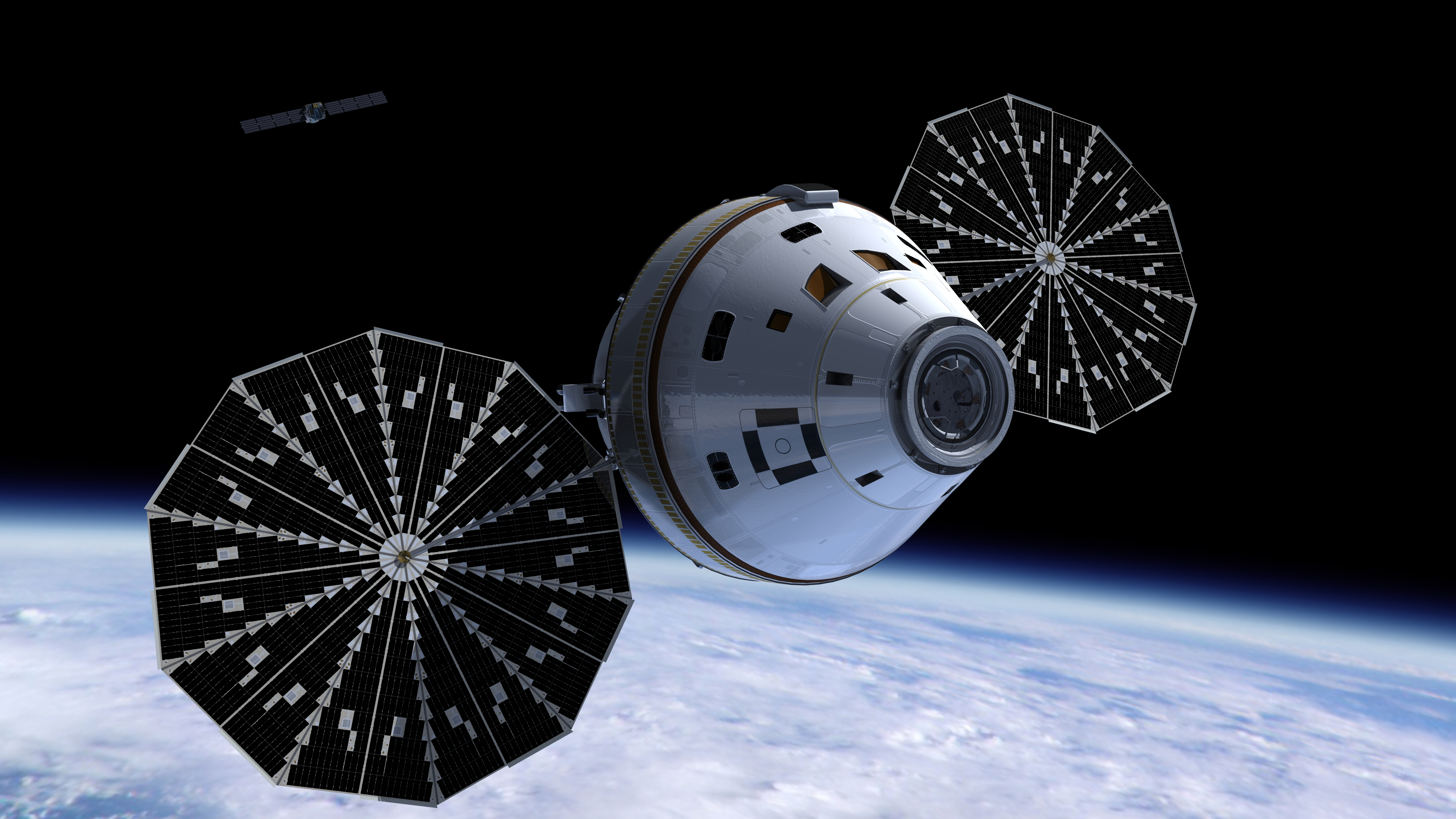 None